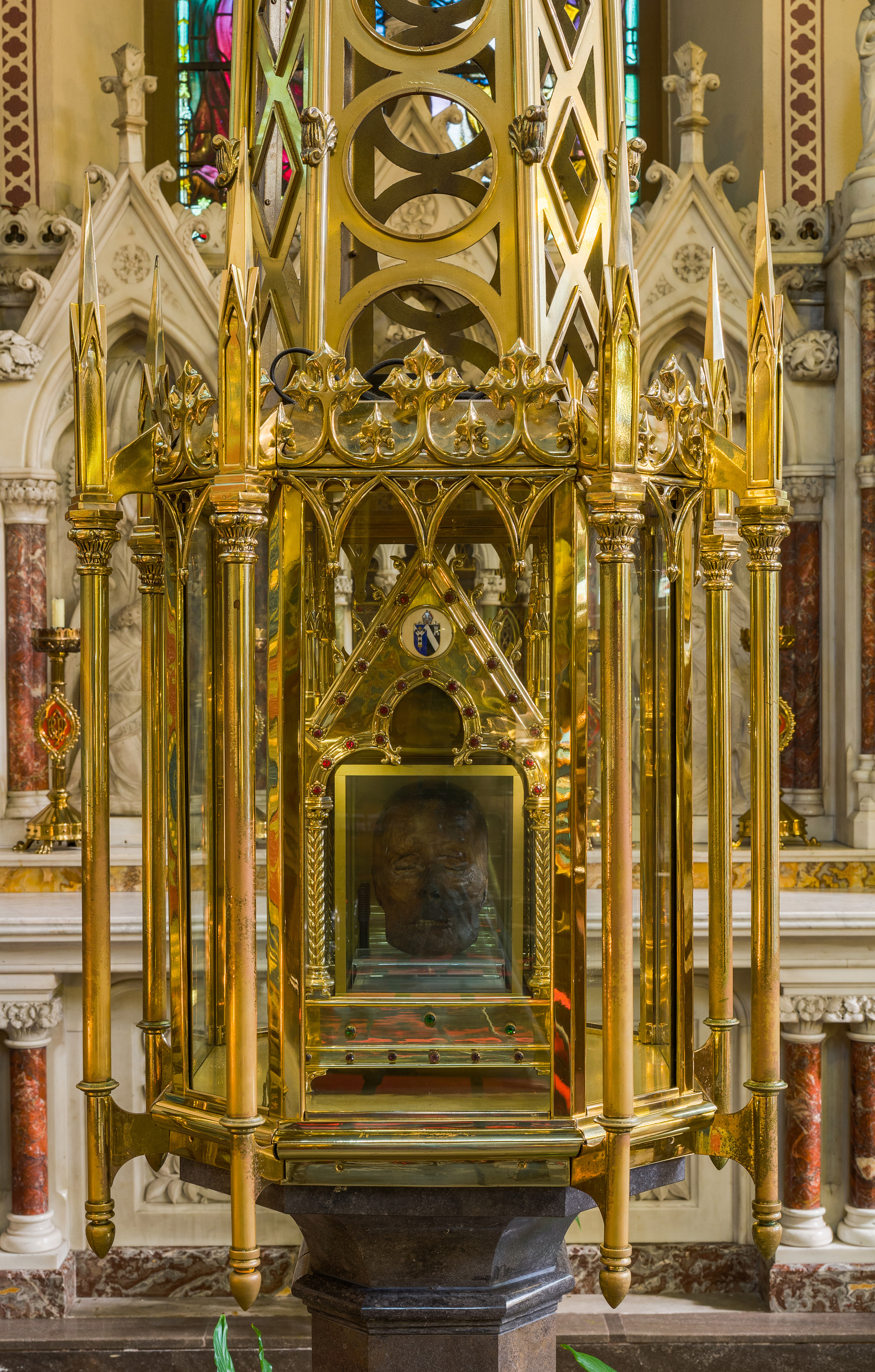 The Shrine of Oliver Plunkett at St Peter's Church in Drogheda, Ireland.